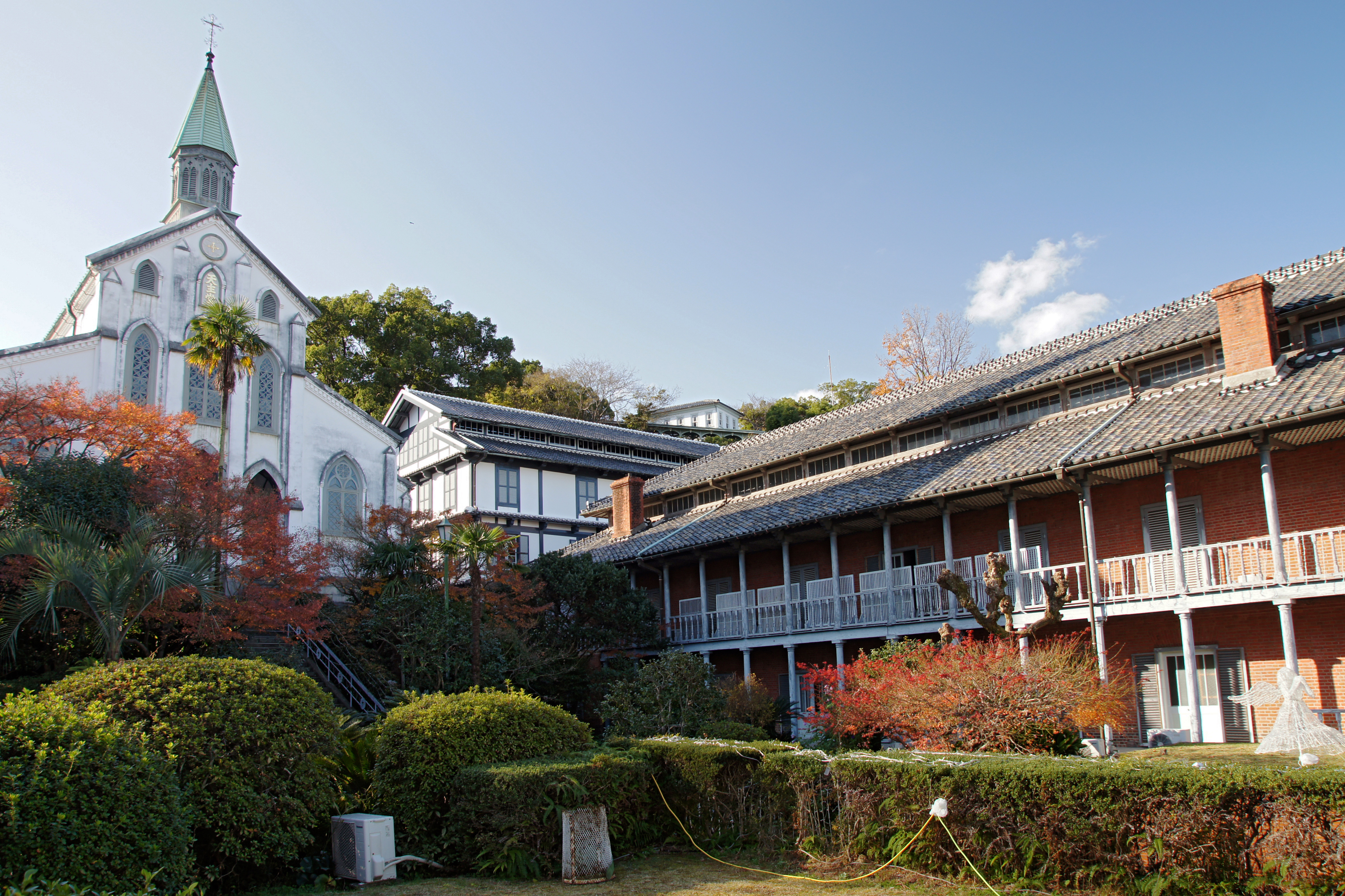 Former the archbishop hall of the Roman Catholic Archdiocese of Nagasaki in Nagasaki, Nagasaki prefecture, Japan